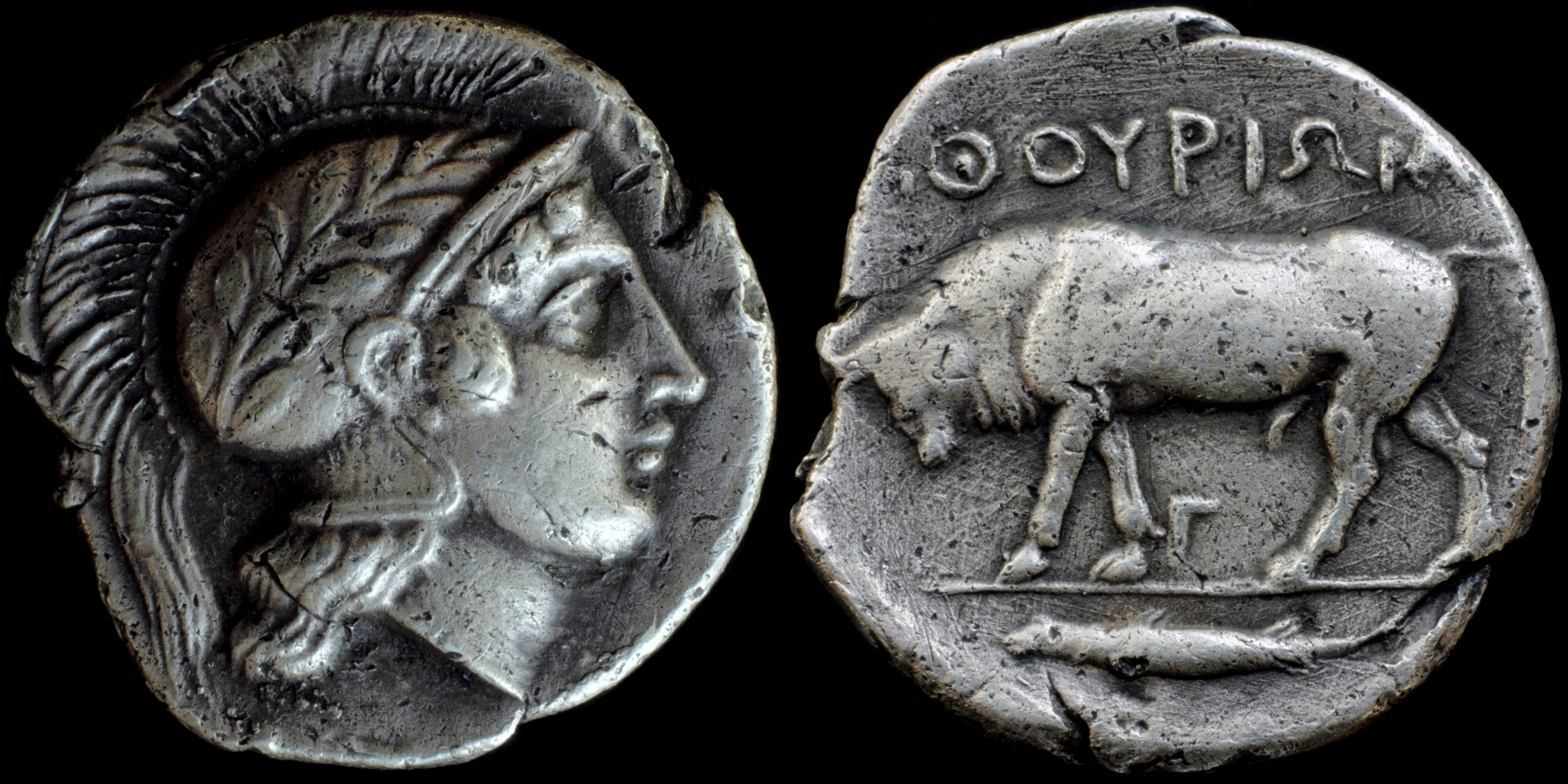 Fake AR nomos from Thurii